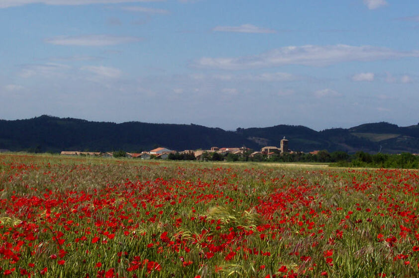 Panorama of Muruzabal, navarran village